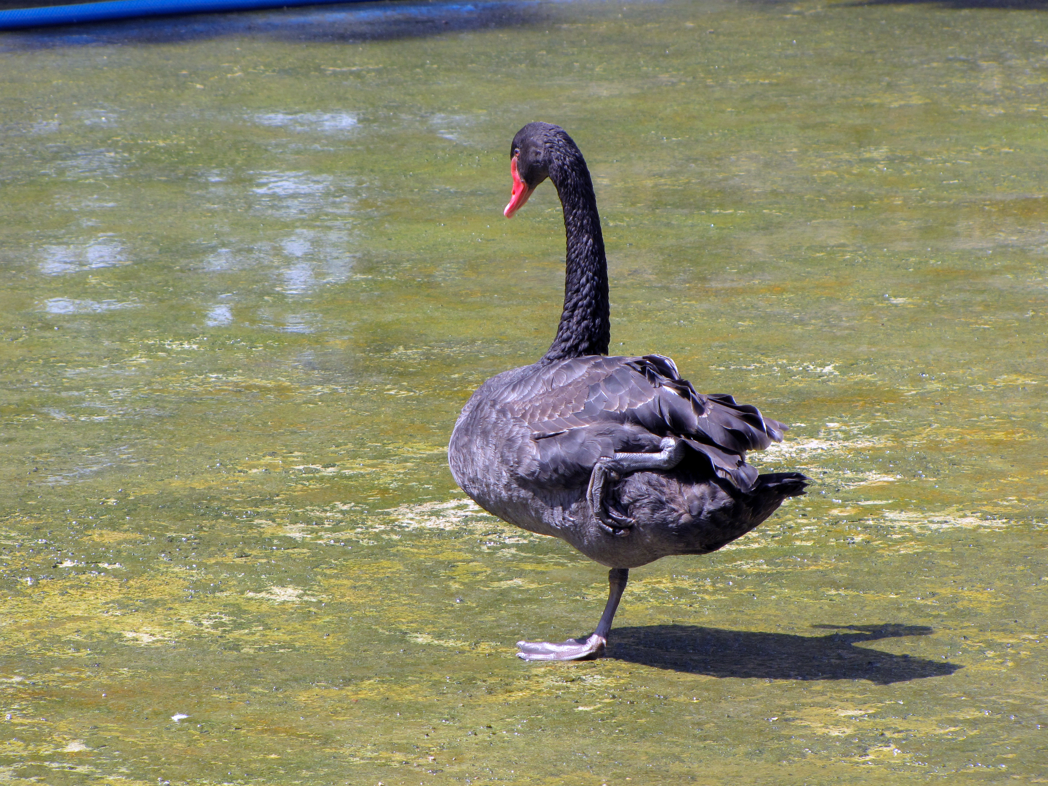 Swans are birds of the family Anatidae within the genus Cygnus. The swans' close relatives include the geese and ducks.